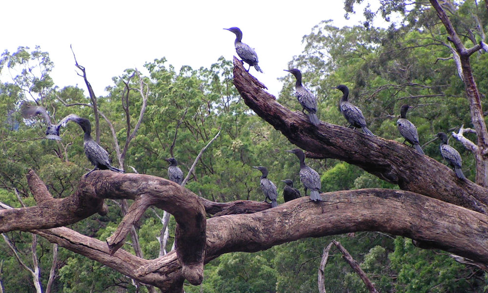 Little Black Cormorants (Phalacrocorax sulcirostris), Shoalhaven River, NSW, Australia